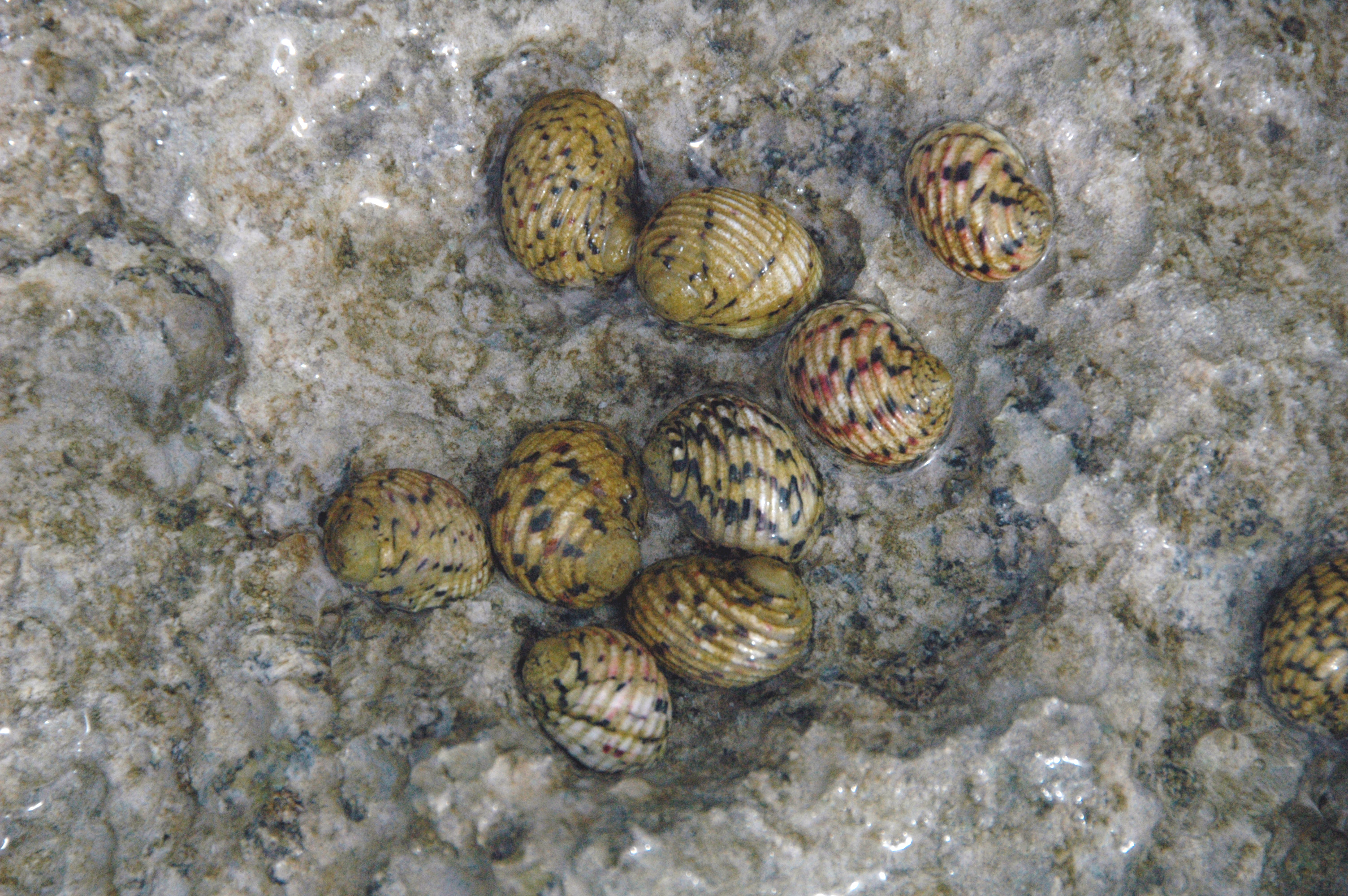 Nerita versicolor Gmelin, 1791 - four-toothed nerite snails exposed in a rocky shore intertidal zone. These nerite snails are on an epikarstified aragonitic limestone surface in the intertidal zone. They are grazing on algal/bacterial films by scraping the rocks with their radulae. The limestone rocks are cross-bedded, aragonitic, calcarenitic eolianites, formed in a terrestrial, near-shore, wind-dominated, sand dune environment. Stratigraphy: North Point Member, Rice Bay Formation, middle Holocene, ~5300 years old Classification: Animalia, Mollusca, Gastropoda, Neritidae Locality: western rocky shoreline of North Point Peninsula, eastern margin of Graham's Harbour, northeastern San Salvador Island, eastern Bahamas